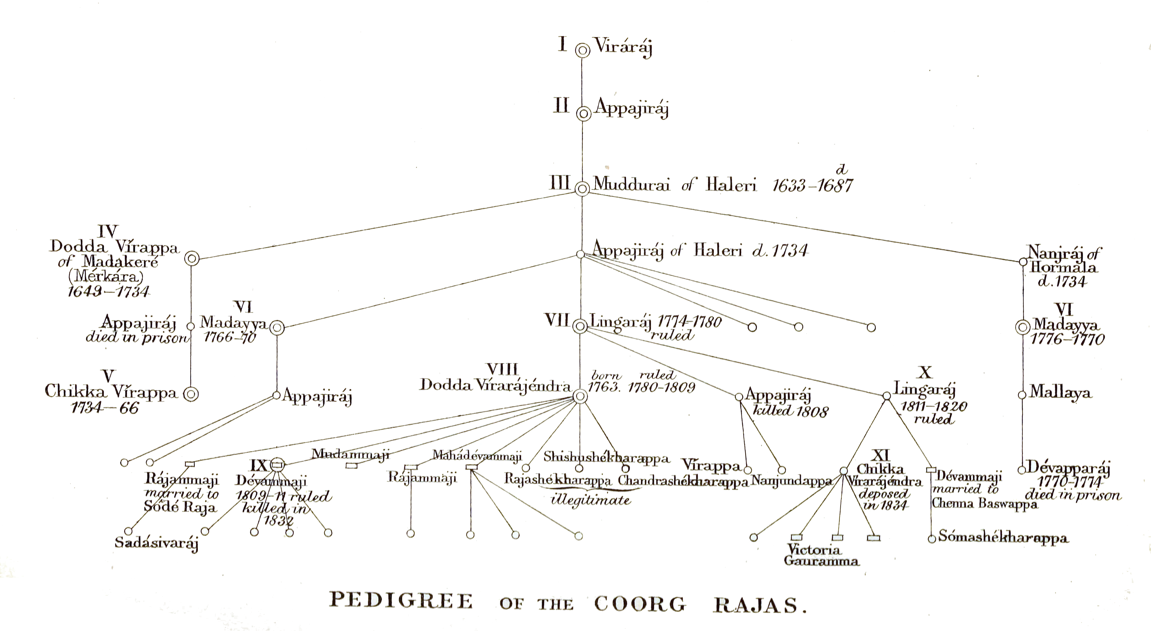 Pedigree of the Coorg rajas.